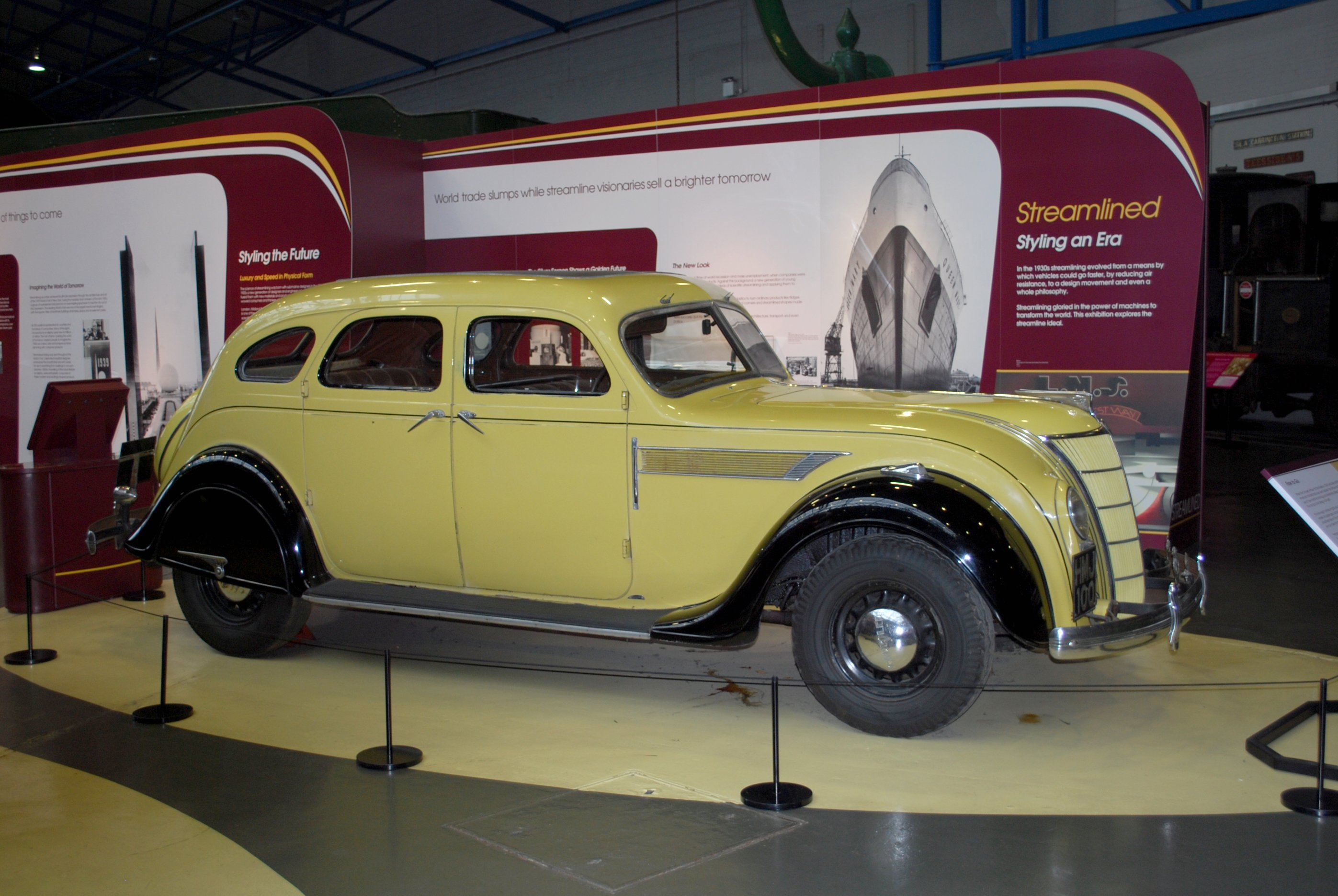 A 1935 Chrysler Heston (Airflow), assembled in Kew, London. On display at the National Railway Museum York, 09/10. Fitted with the 274ci (4486cc) straight-eight, might have been a UK-market special as the C-1 normally got the 323.5ci eight.